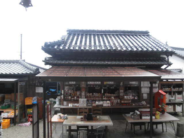 Omatsu gongen Shrine office